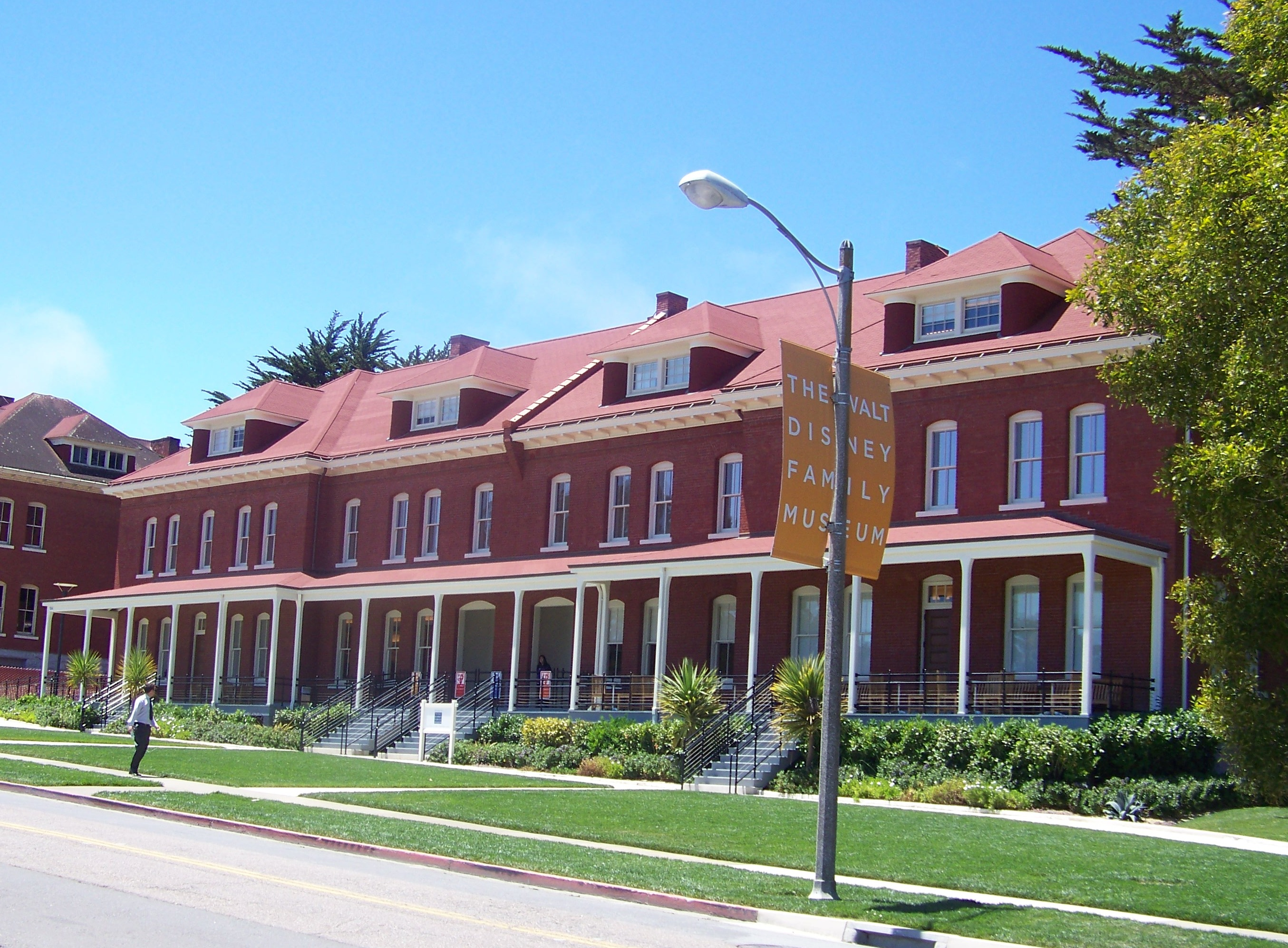 The Walt Disney Family Museum is located in the Presidio in San Francisco, CA